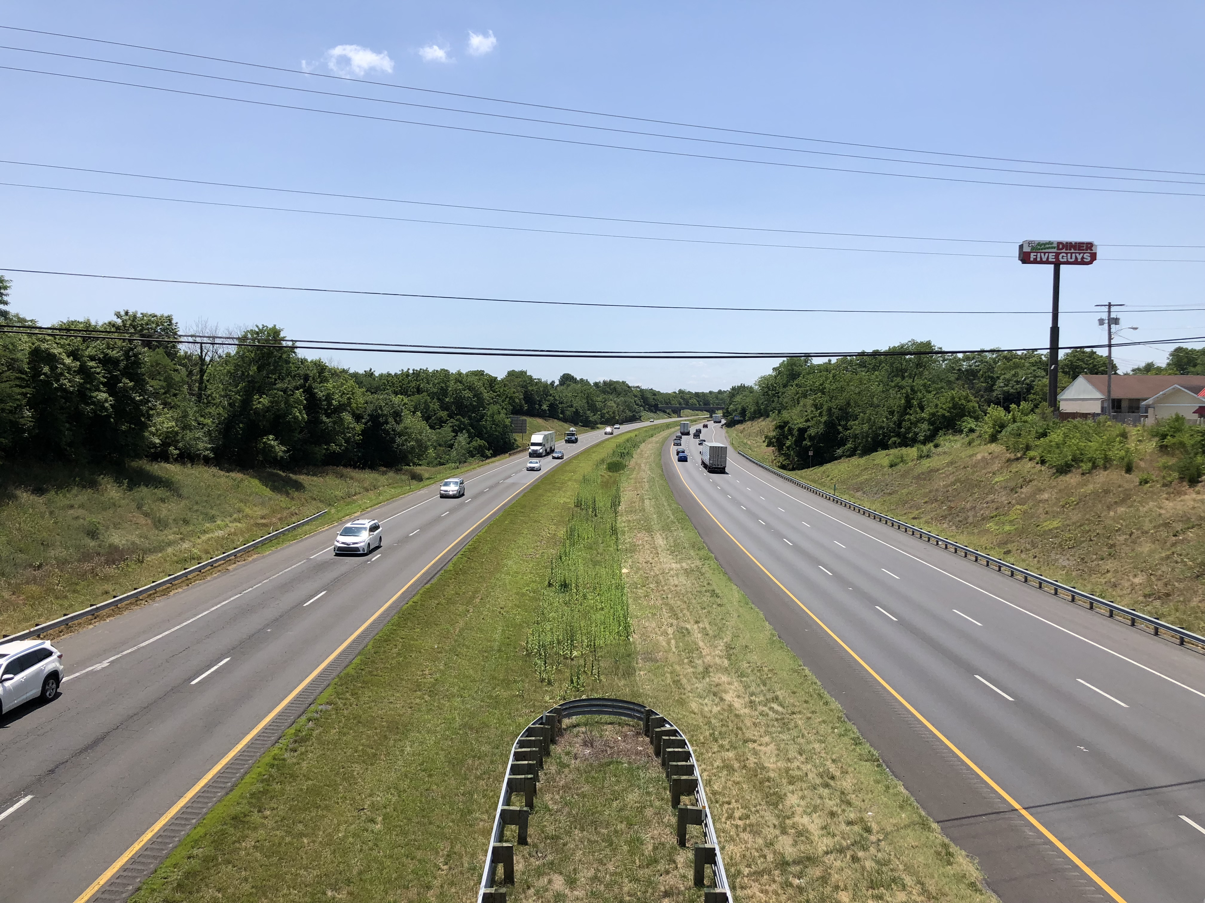 View south along Interstate 81 from the overpass for Virginia State Route 7 (Berryville Avenue/Berryville Pike) in Winchester, Virginia